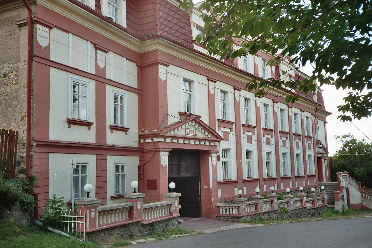 Former Oblátes convent in village of Teplá (Litoměřice District, Czech Republic), nowadays „Zámek Amadeus“ Hotel.